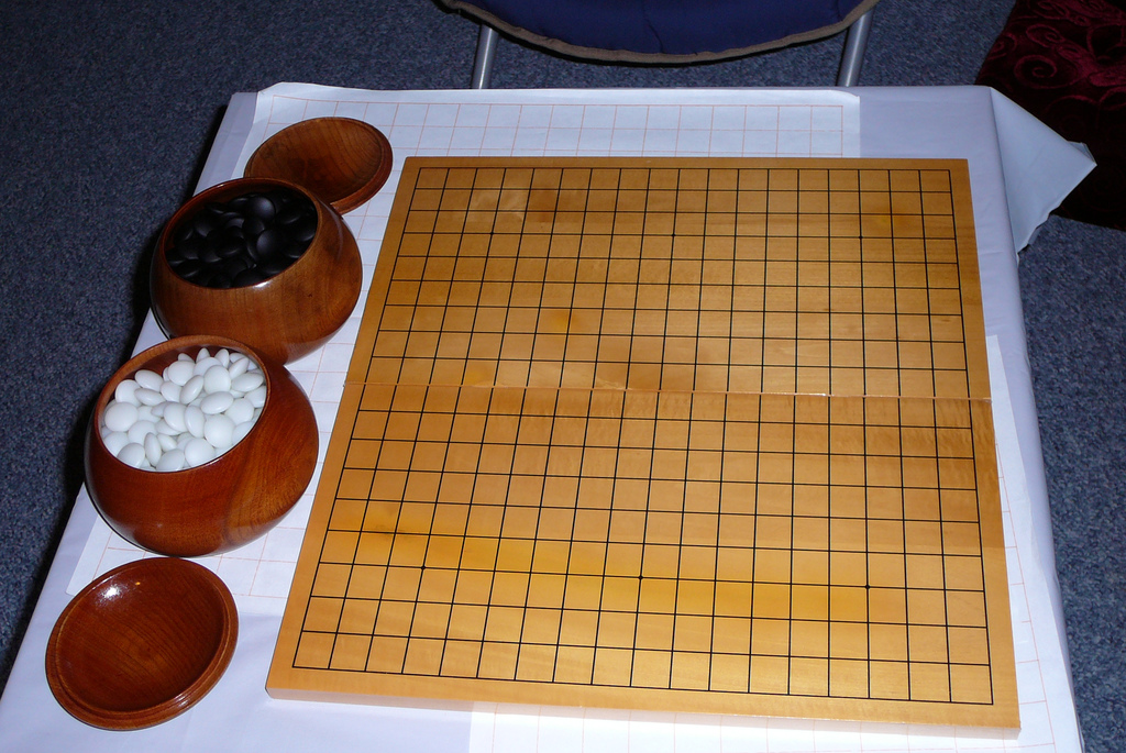 Step 9: Enjoy your new stones and play a lot with them so that they get that natural oil!